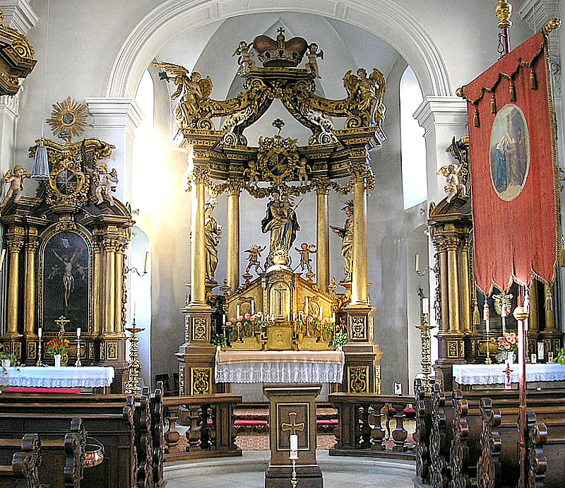 Gereuth (Untermerzbach municipality), interior view of St Philip Parish Church (Church of Gereuth Palace) facing north with altars by Jacob van der Auvera.